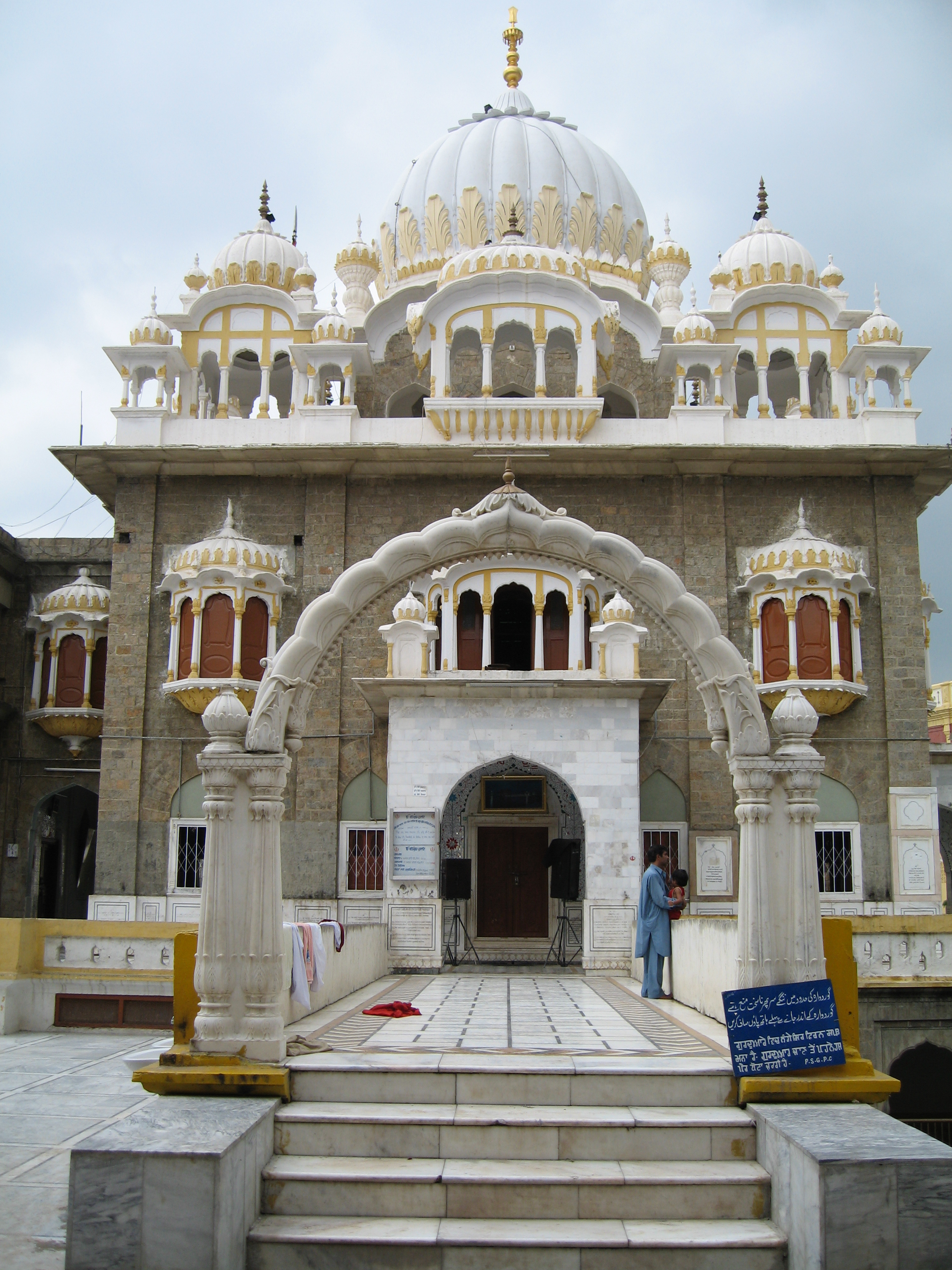 Exterior photograph of Panja Sahib Gurdwara, Hasan Abdal